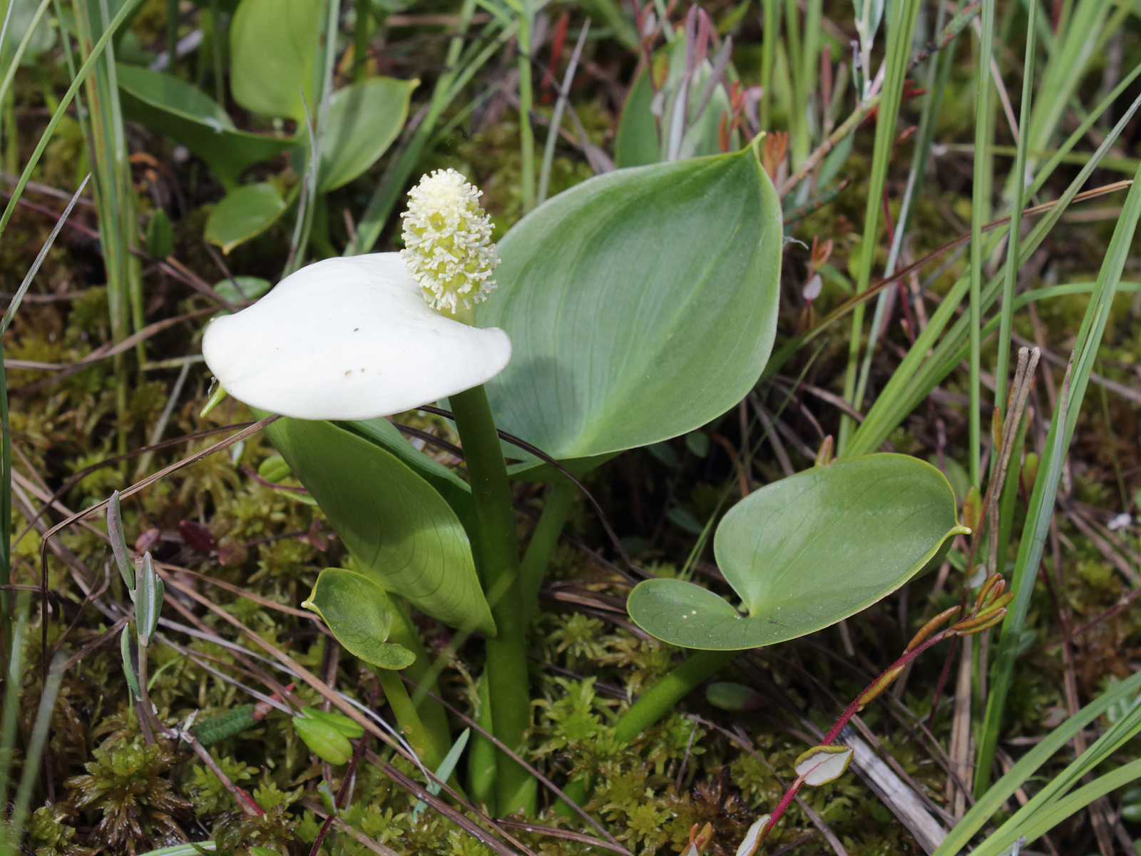 Araceae, Calla palustris